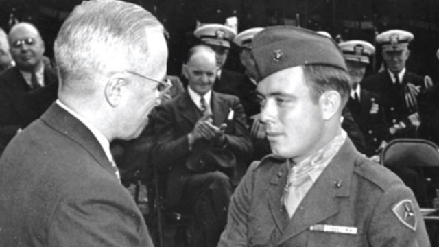 Harry Truman, president of the United States, congratulates Hershel "Woody" Williams, a Marine reservist and survivor of the battle of Iwo Jima, on being awarded the Medal of Honor for his actions during the battle of Iwo Jima, October 5, 1945 at the White House in Washington. Williams received the Medal of Honor for "conspicuous gallantry and intrepidity at the risk of his life" on 23 February 1945 during the Battle of Iwo Jima.